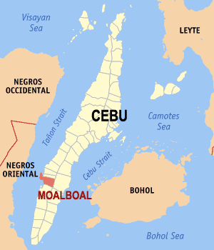 Map of Cebu showing the location of Moalboal